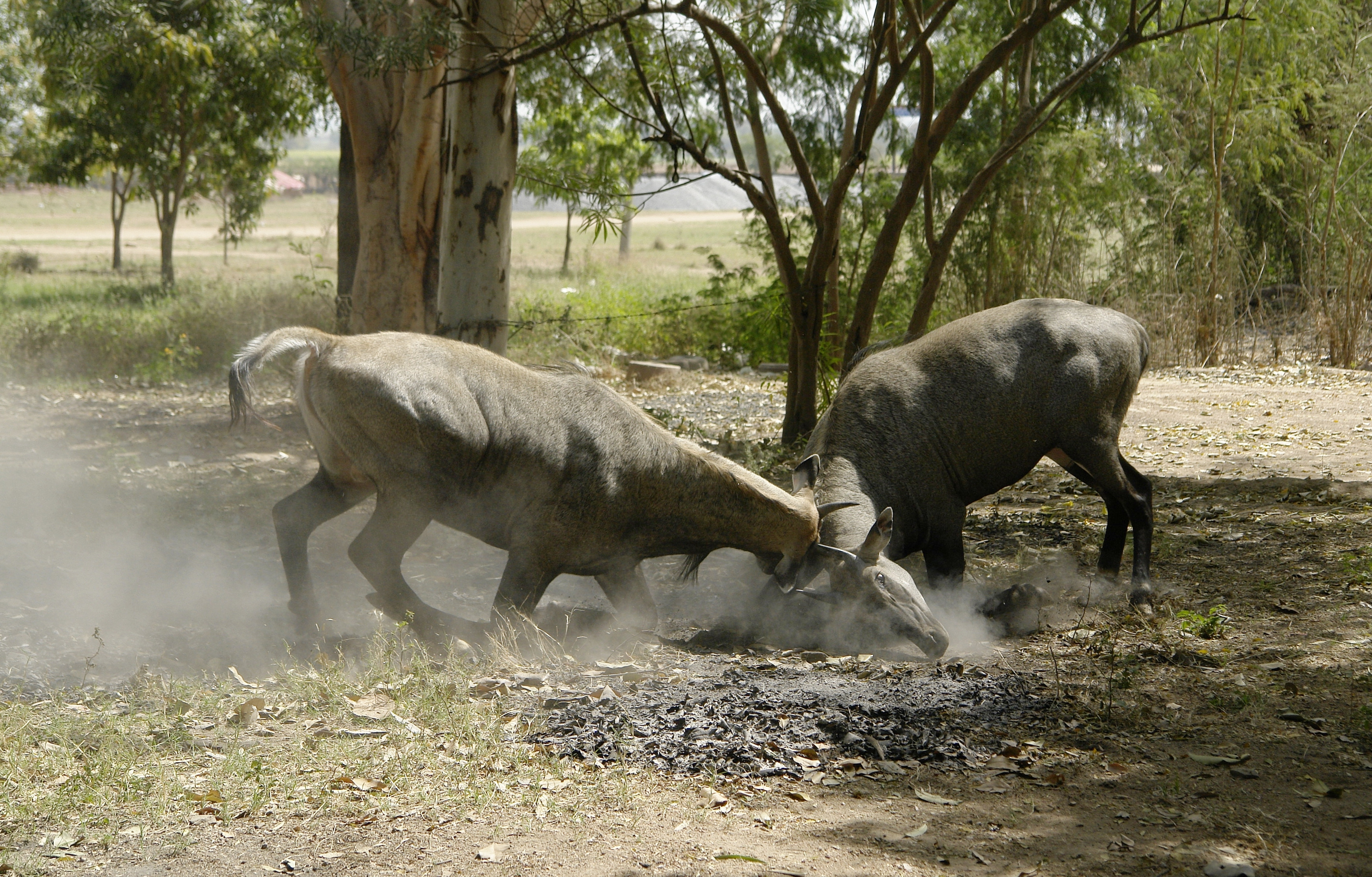 Male nilgais fighting (Boselaphus tragocamelus), Lakeshwari, Gwalior district, India.